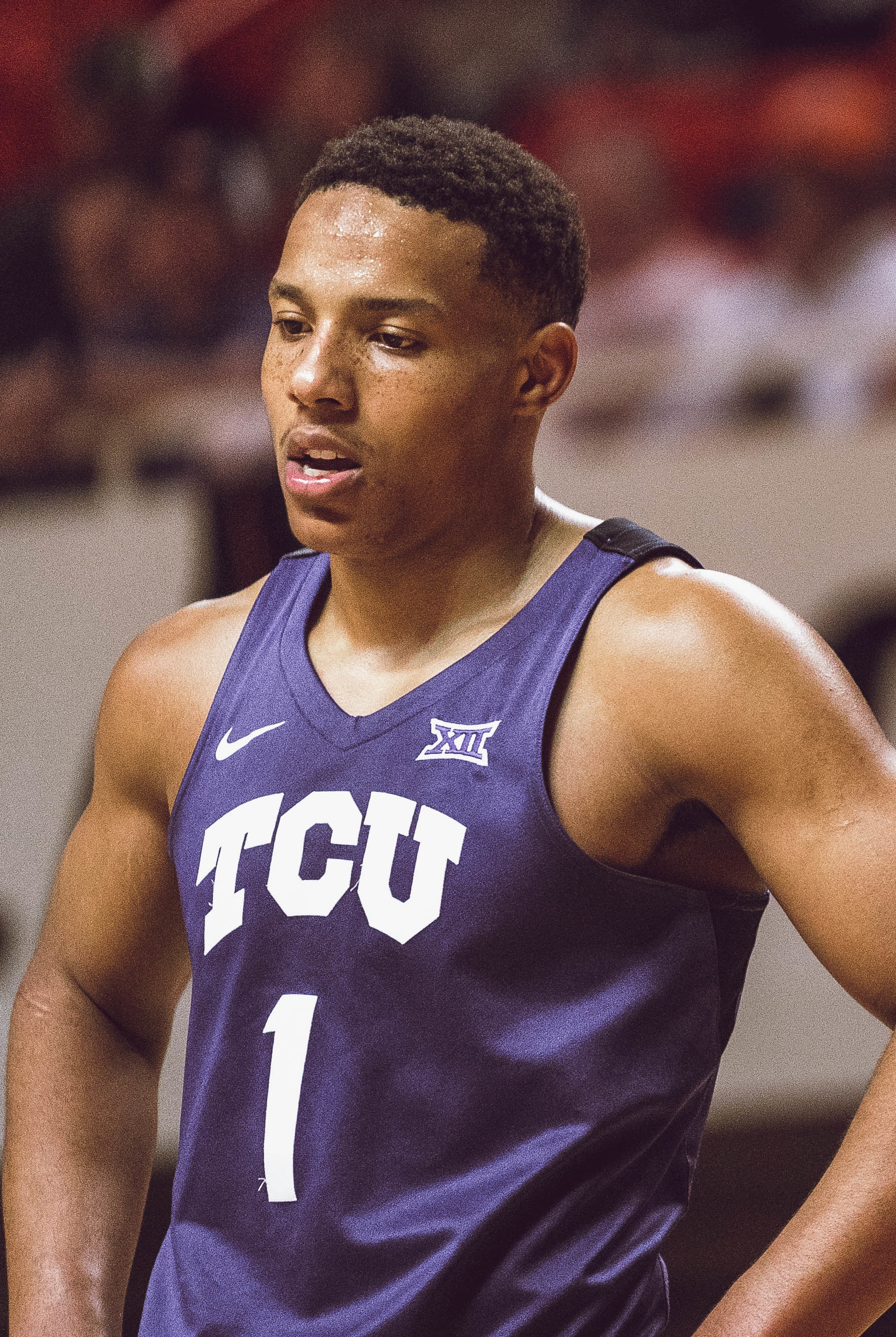 Oklahoma State Cowboys vs TCU Horned Frogs Men’s Basketball Game, Monday, February 18, 2019, Gallagher-Iba Arena, Stillwater, OK. Courtney Bay/OSU Athletics